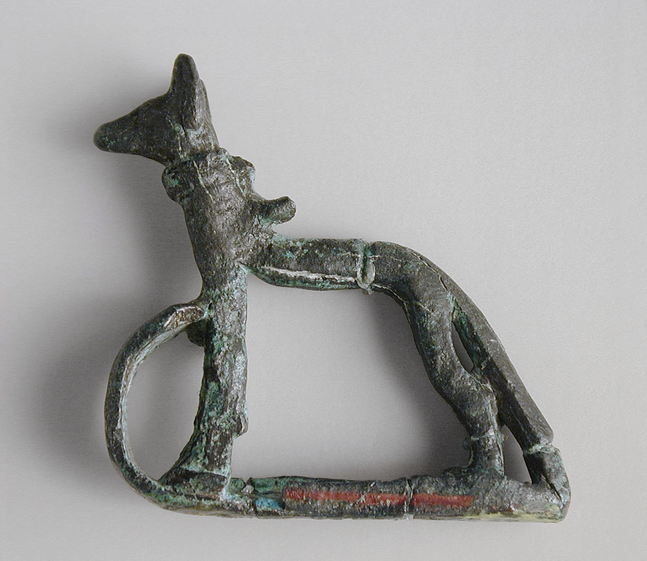 Egypt, Late Period - Ptolemaic Period (711 - 30 BCE) Jewelry and Adornments; amulets Bronze Height: 1 3/8 in. (3.5 cm); Length: 1 1/2 in. (3.7 cm) Gift of Mrs. William Leon Graves (45.23.31) Egyptian Art